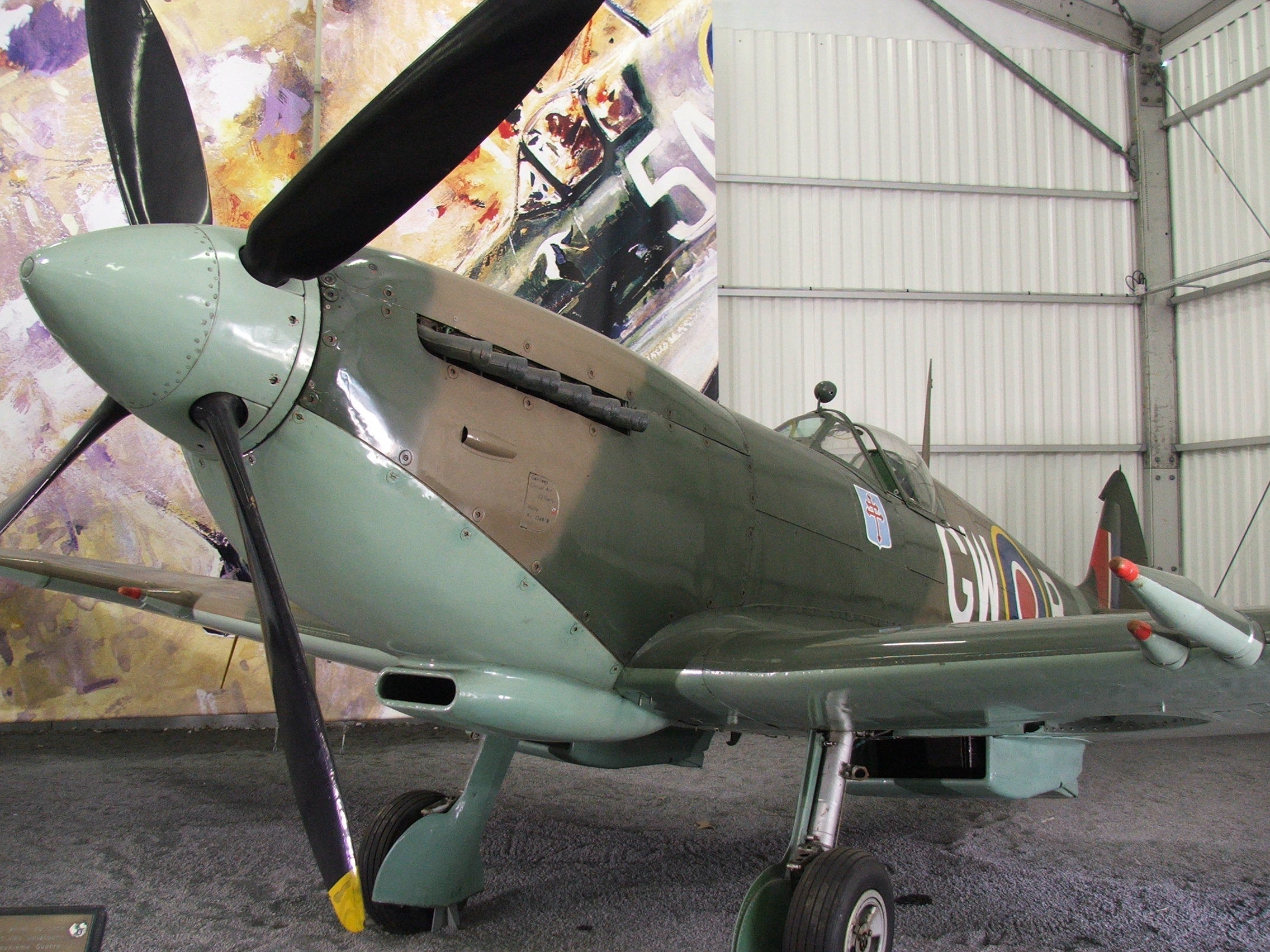 French (GC Ile de France w/Cross of Lorraine) Supermarine Spitfire, Musée de l'Air et de l'Espace, Le Bourget, north of Paris, France.